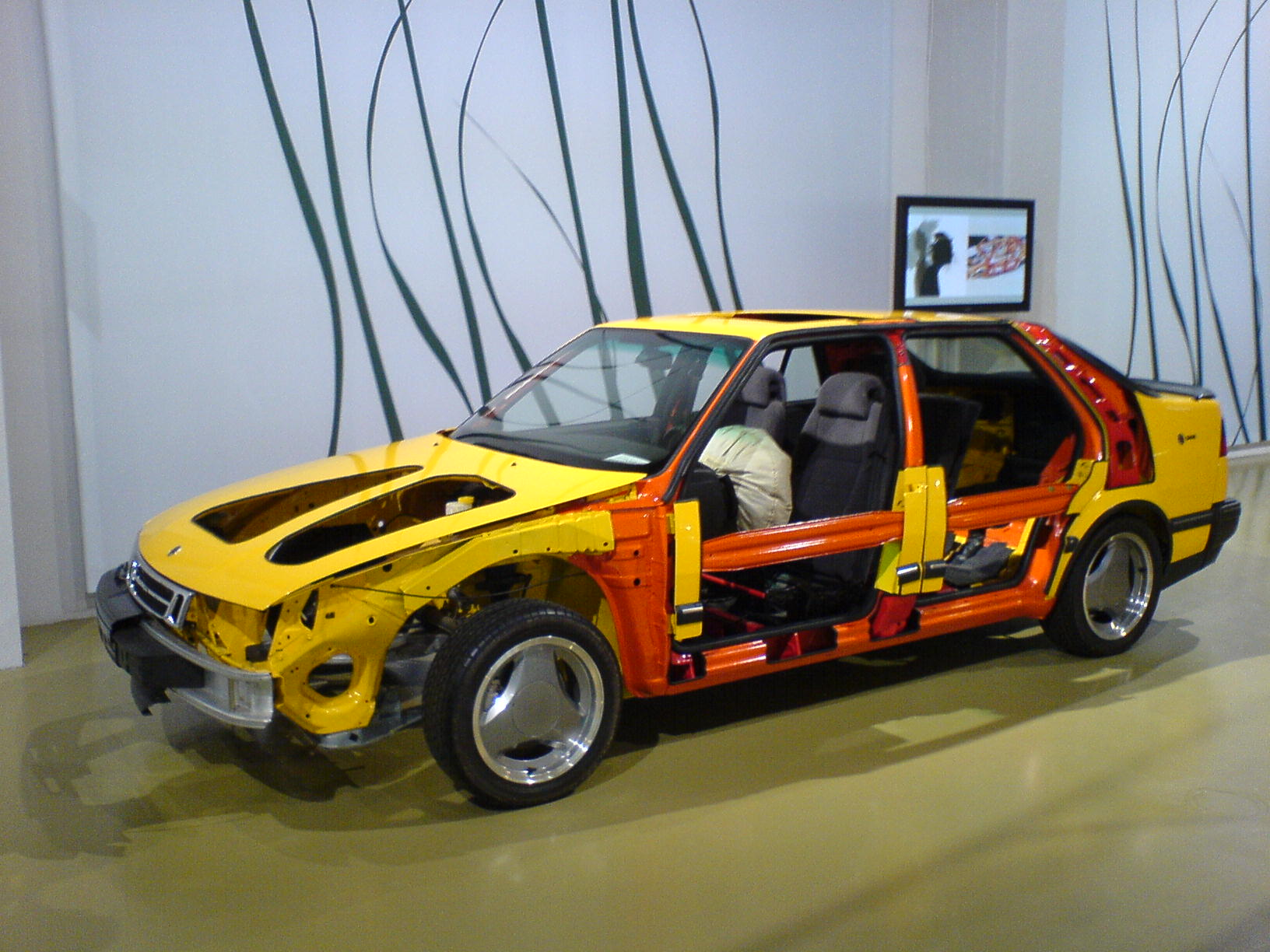 Cross section to show the different strength of the metal in a SAAB 9000. The model is standing in the SAAB museum in Trollhättan, Sweden.